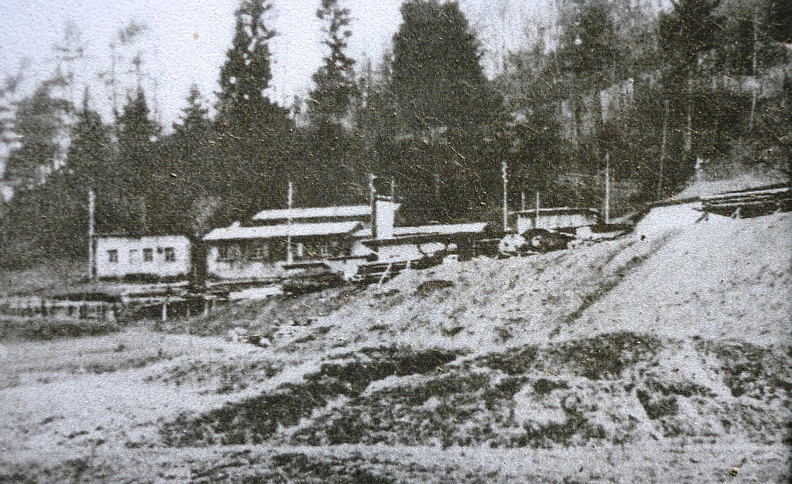 Riedhof coal mine, Aeugstertal ZH, Switzerland Bergwerk Riedhof, Aeugstertal ZH, Schweiz